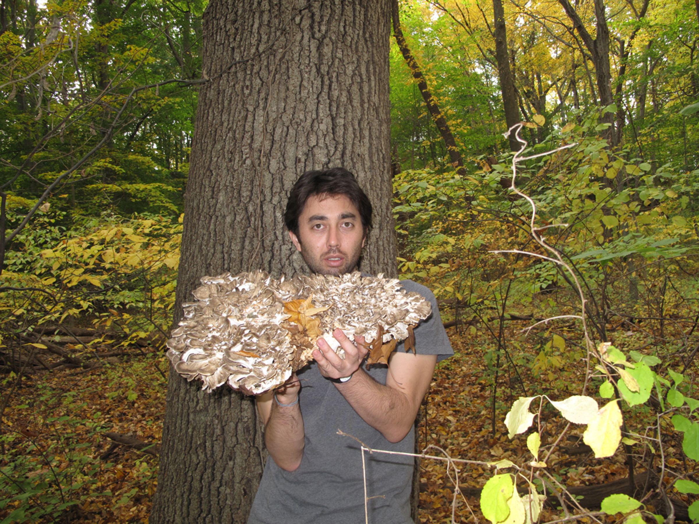 A large Hen of the Woods (Maitake) specimen found in New York state.